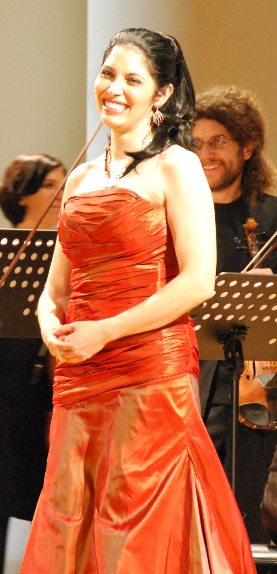 Vivica Genaux, Misteria Paschalia Festival, Kraków Philharmonic, 05.04.2010.